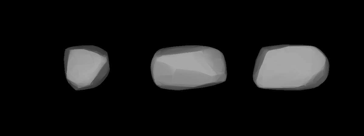 A three-dimensional model of 531 Zerlina that was computed using light curve inversion techniques.